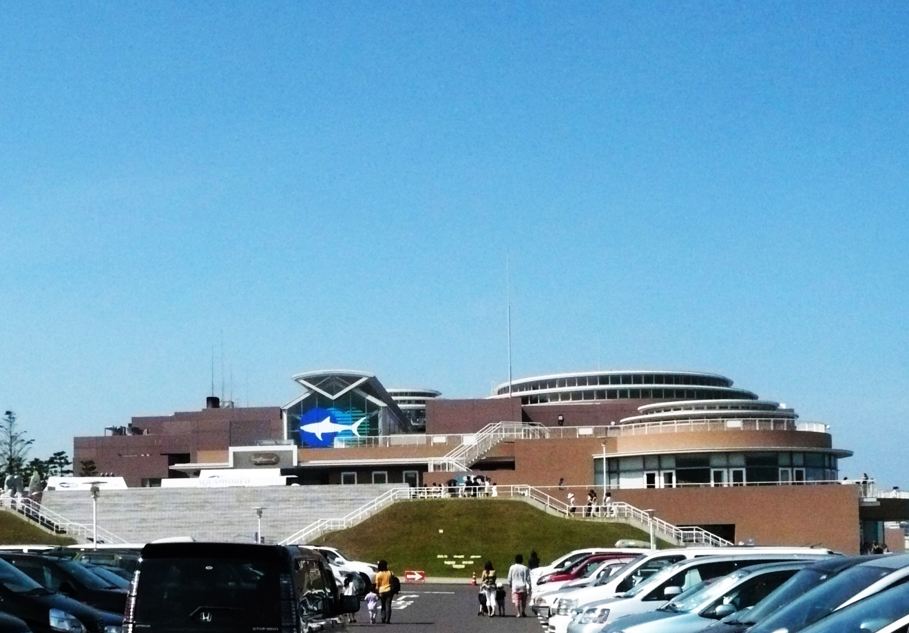 Aqua World Ibaraki Prefectural Oarai Aquarium in Oarai Town, Ibaraki Prefecture, Japan